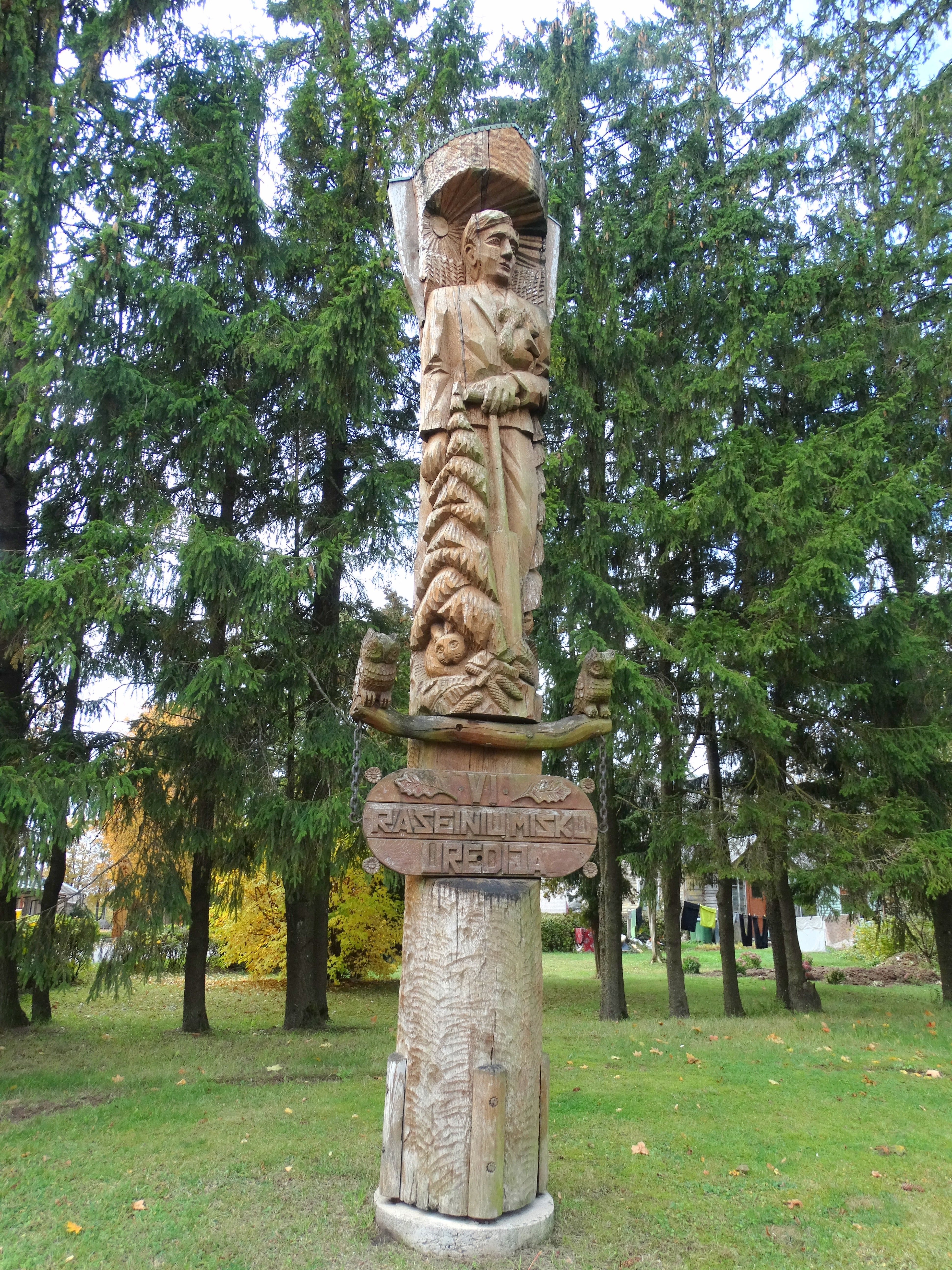 Norgėlai, Raseiniai district, Lithuania